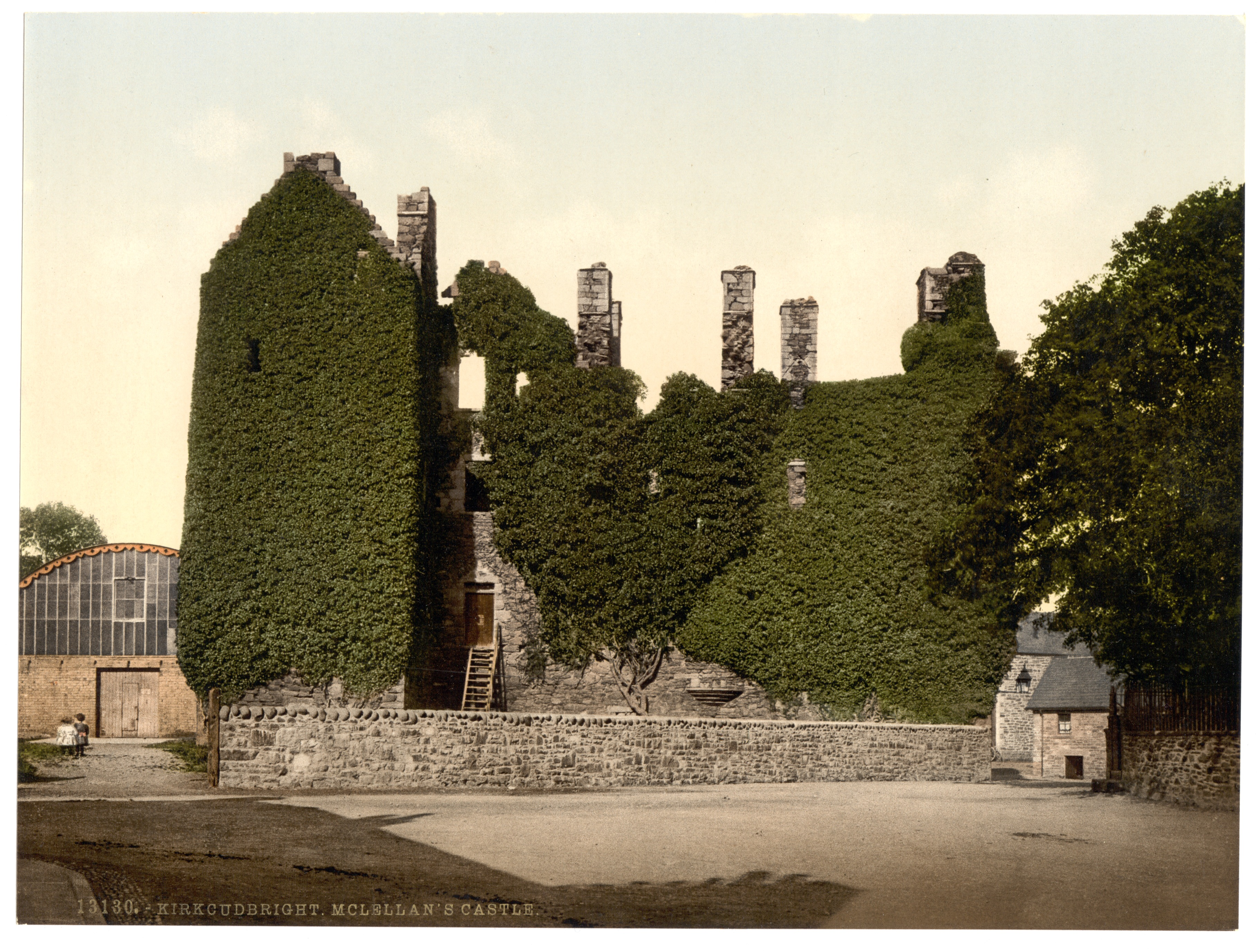 Print no. "13130".; Title from the Detroit Publishing Co., catalogue J-foreign section. Detroit, Mich. : Detroit Photographic Company, 1905.; More information about the Photochrom Print Collection is available at Forms part of: Views of landscape and architecture in Scotland in the Photochrom print collection.